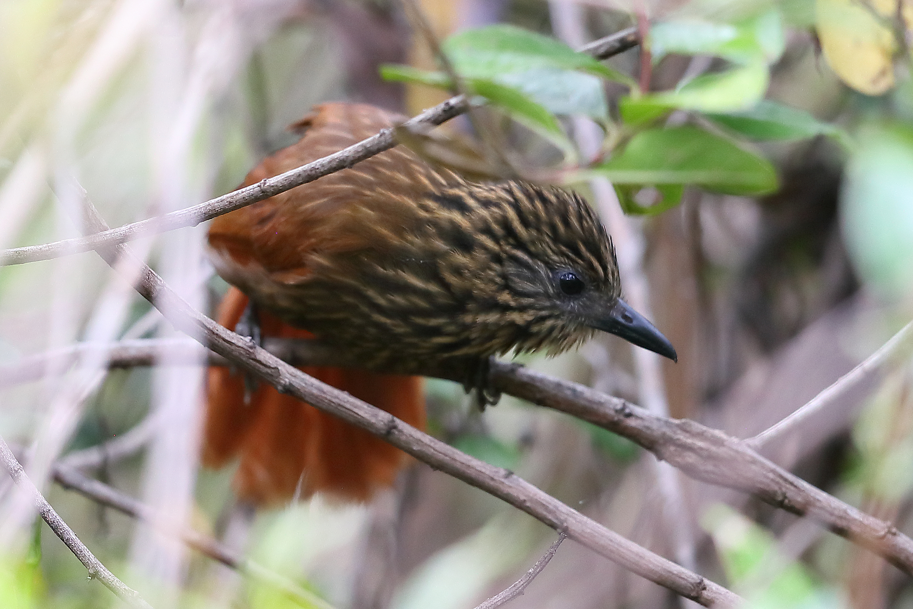 Buff throated Treehunter; Junin, Peru